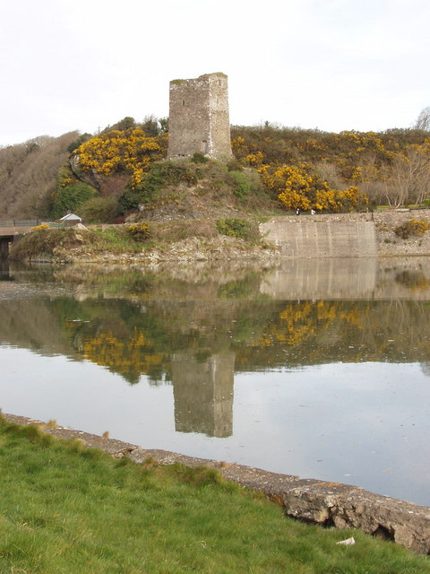 Ferrycarrig castle. This castle on the northern bank of the Slaney is described by several sources as a fifteenth century tower house built by the Roaches on the North side of the river to guard the ferry and the river passage. See Myth and Legends and Inland Waterways of Ireland history of the River Slaney The Normans built a castle in 1169 on the south bank of the river, where there is now a round tower as a war memorial.